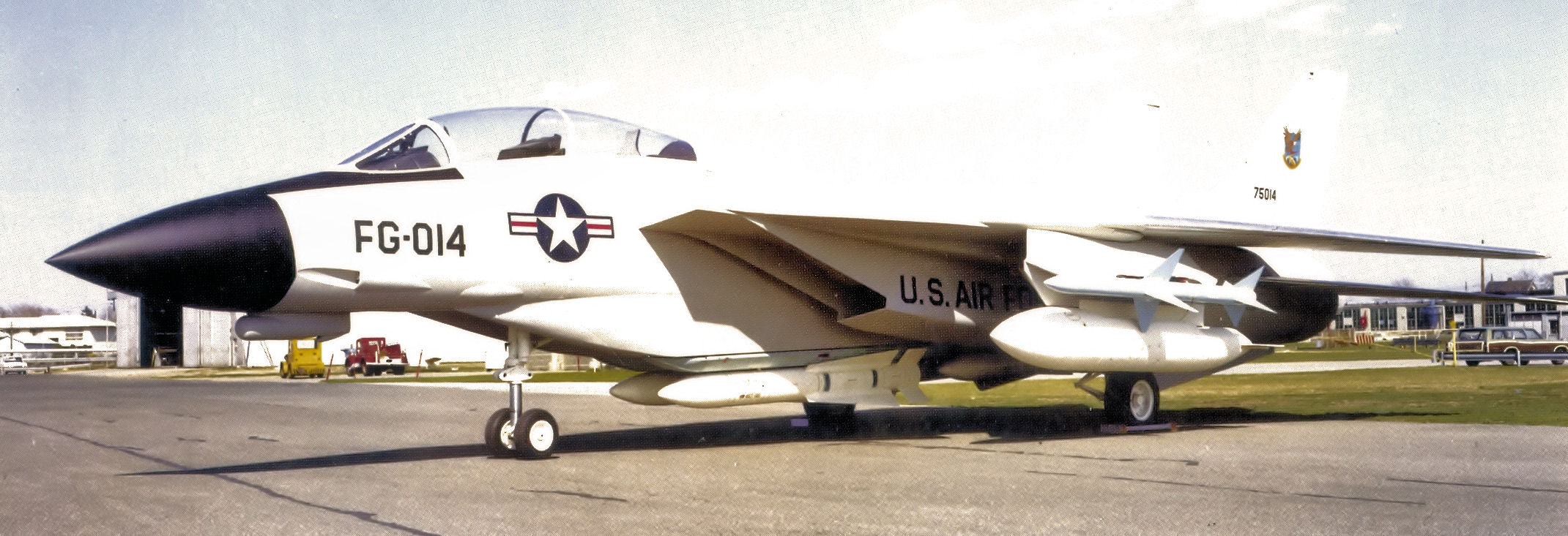 Grumman proposed USAF ADCOM F-14 Tomcat Interceptor - 1972. This mock-up was created by Grumman in response to an Air Force proposal to replace the Convair F-106 Delta Dart as an Aerospace Defense Command interceptor in the 1970s. Photo taken at the Grumman Calverton test facility in the summer of 1972. Note the simulated "Buzz Code" and Aerospace Defense Command livery and emblem on the tail. The program was terminated in April 1974.